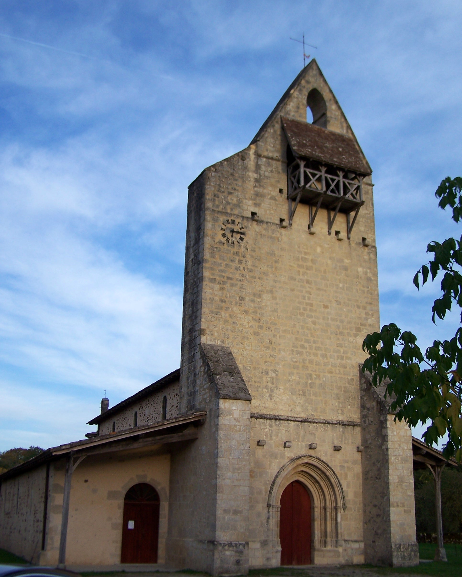 Saint Andrew church of Lucmau (Gironde, France)